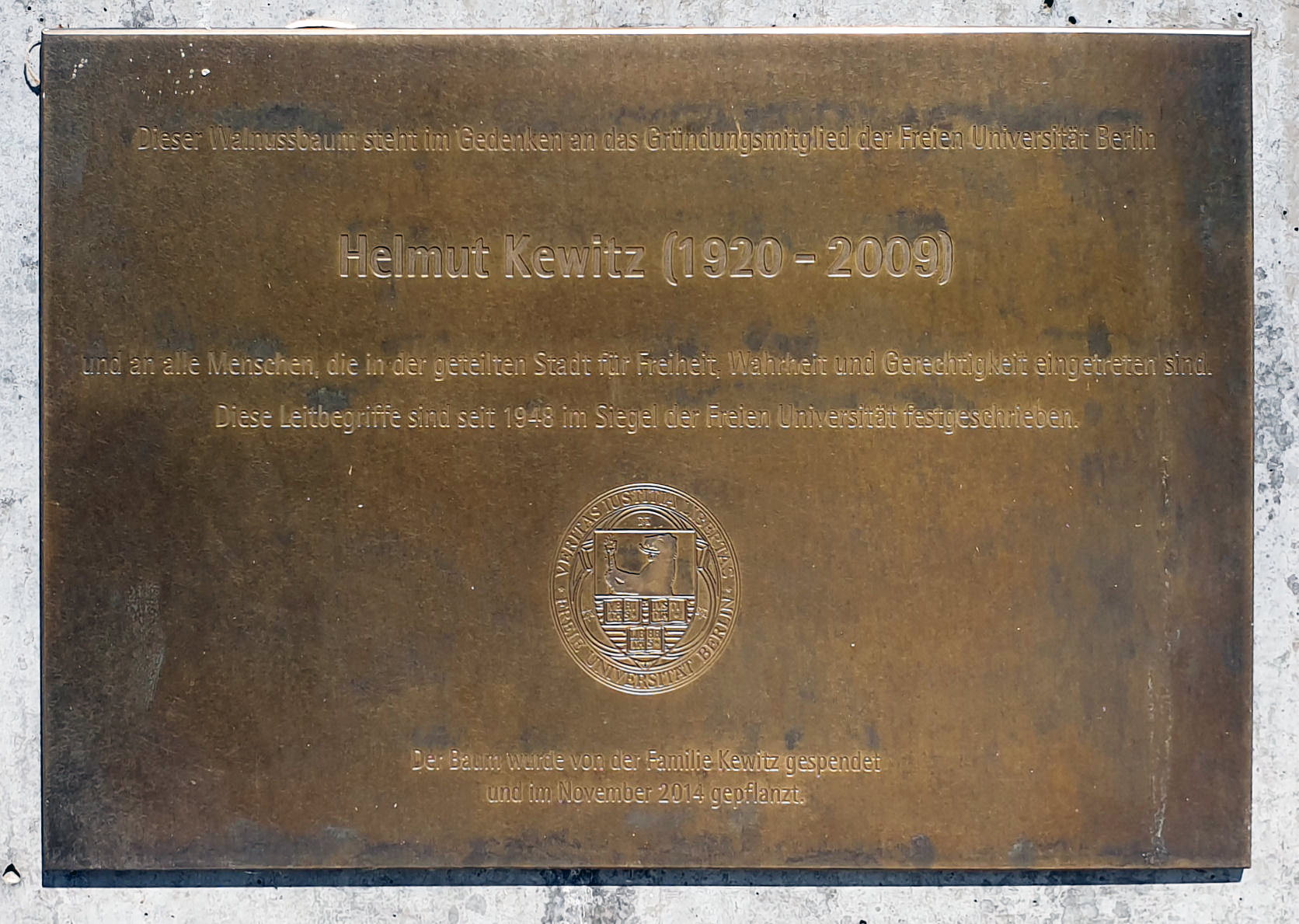 Memorial plaque, Helmut Kewitz, Fabeckstraße 25, Berlin-Dahlem, Deutschland